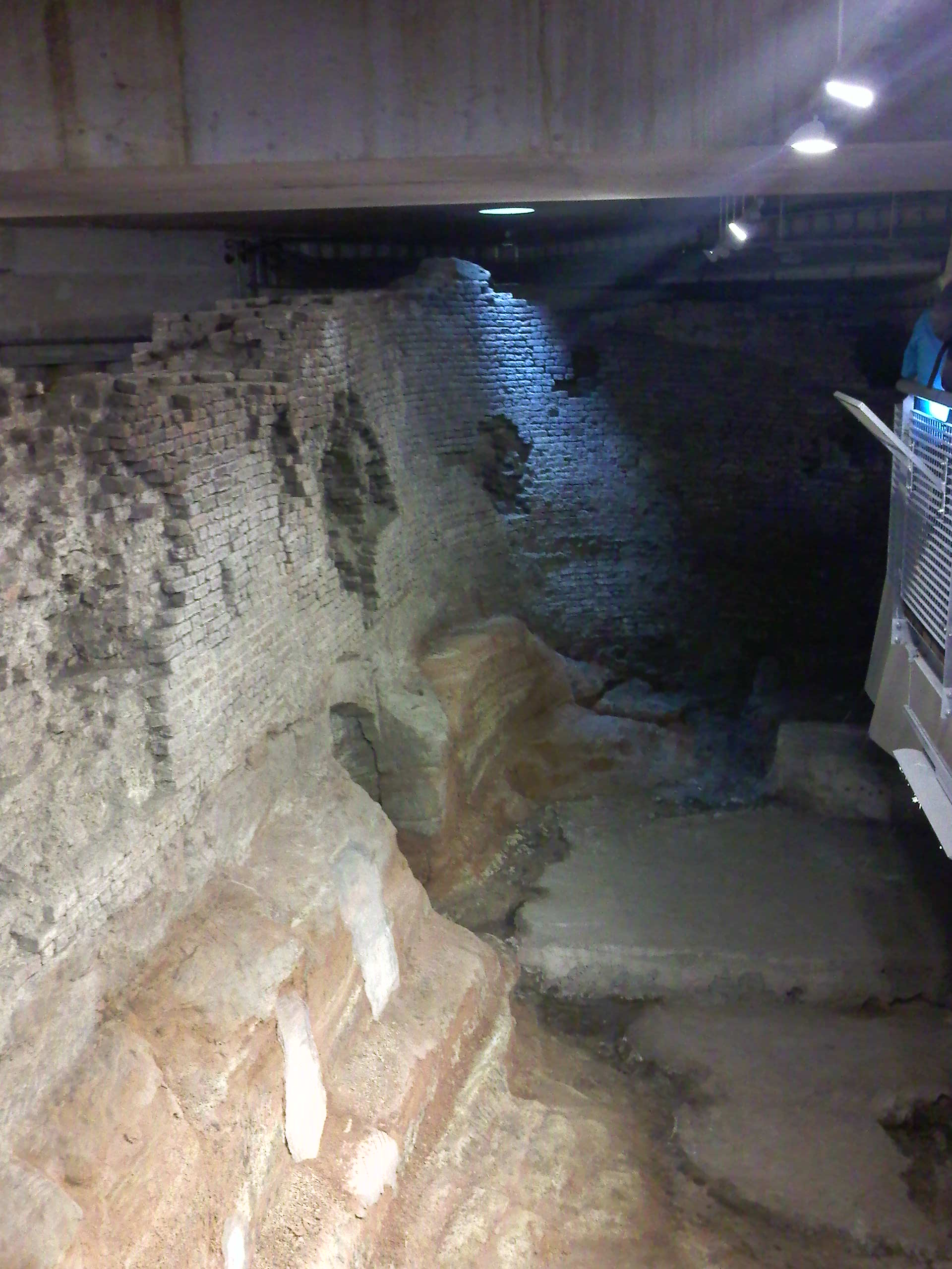 Part of the Old Dock wall, Liverpool